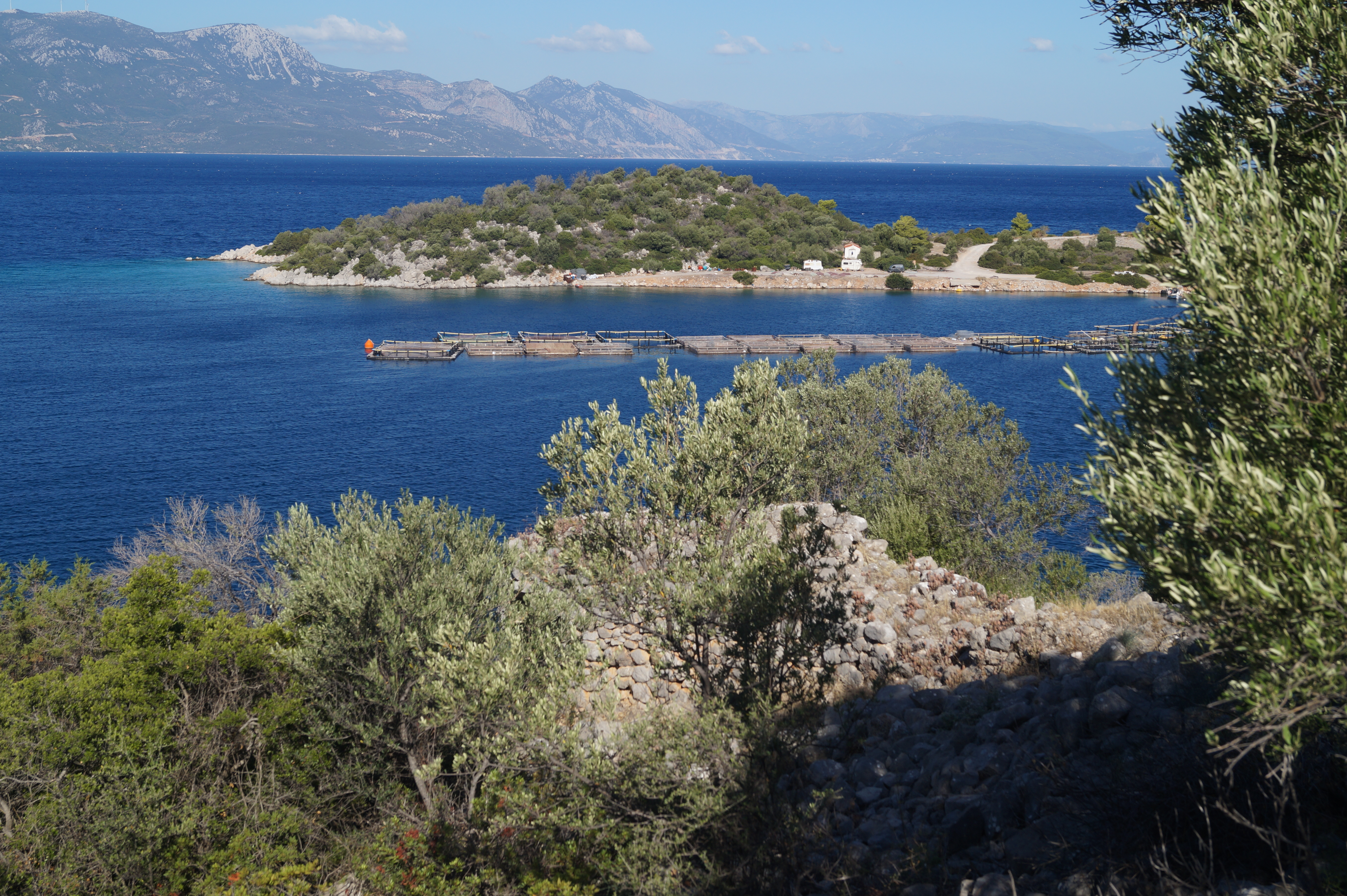 Methana, Greece: Wall of Nicias on the west slope of the Isthmus of Methana. Wall was built in 424 BC.